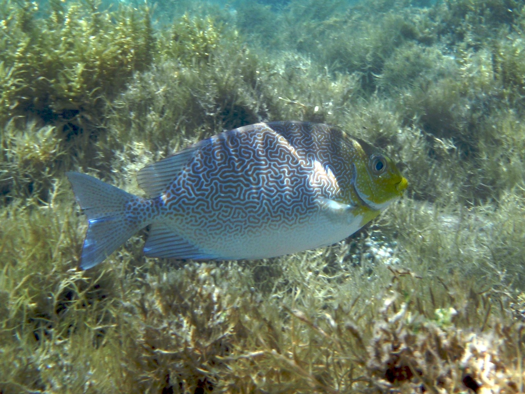 Siganus vermiculatus photographed in Navini Island, Fiji